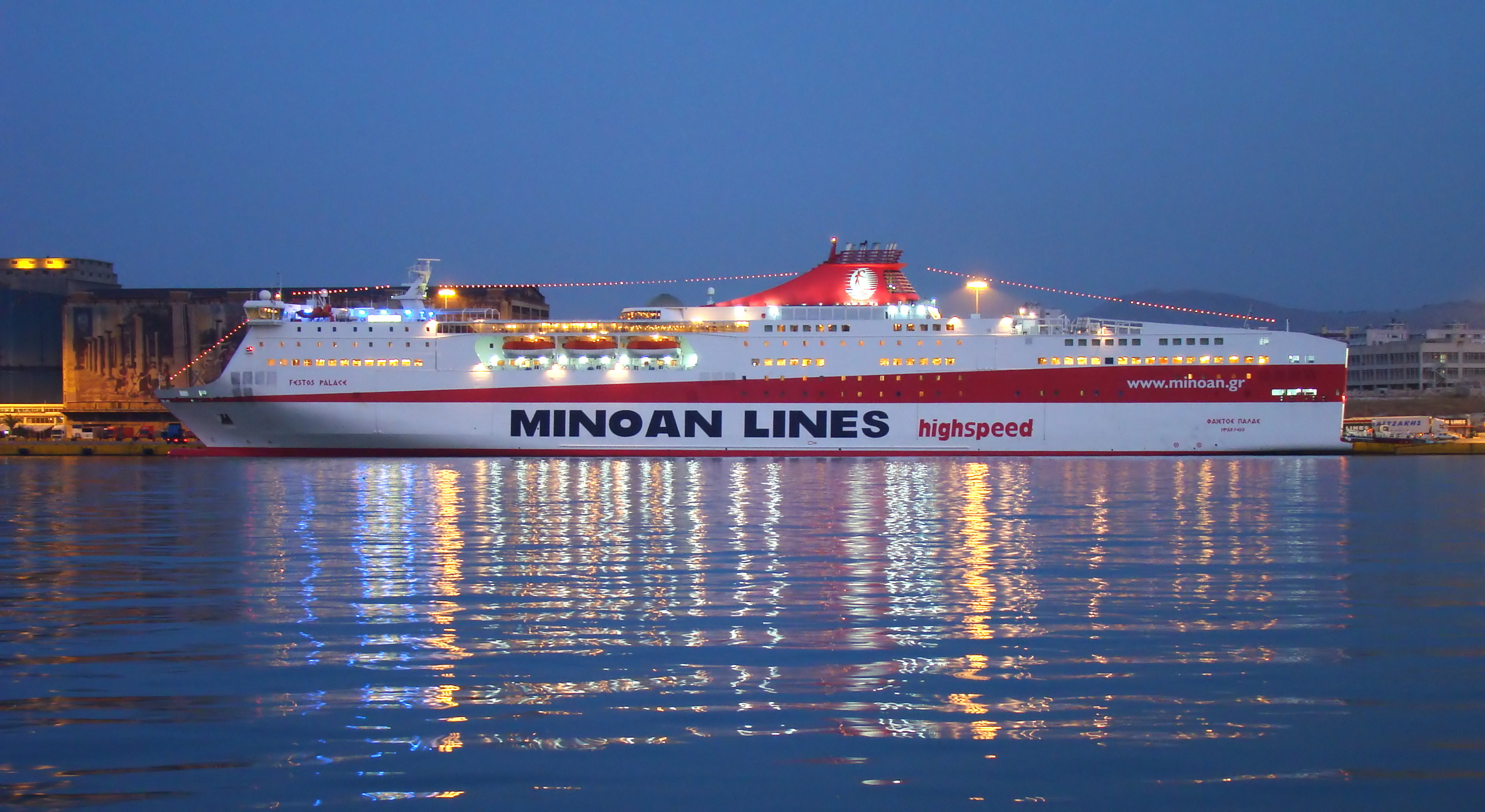 Cruise ship "Festos Palace", SYNR, IMO 9204568, in Piraeus Harbour, Athens, Greece.